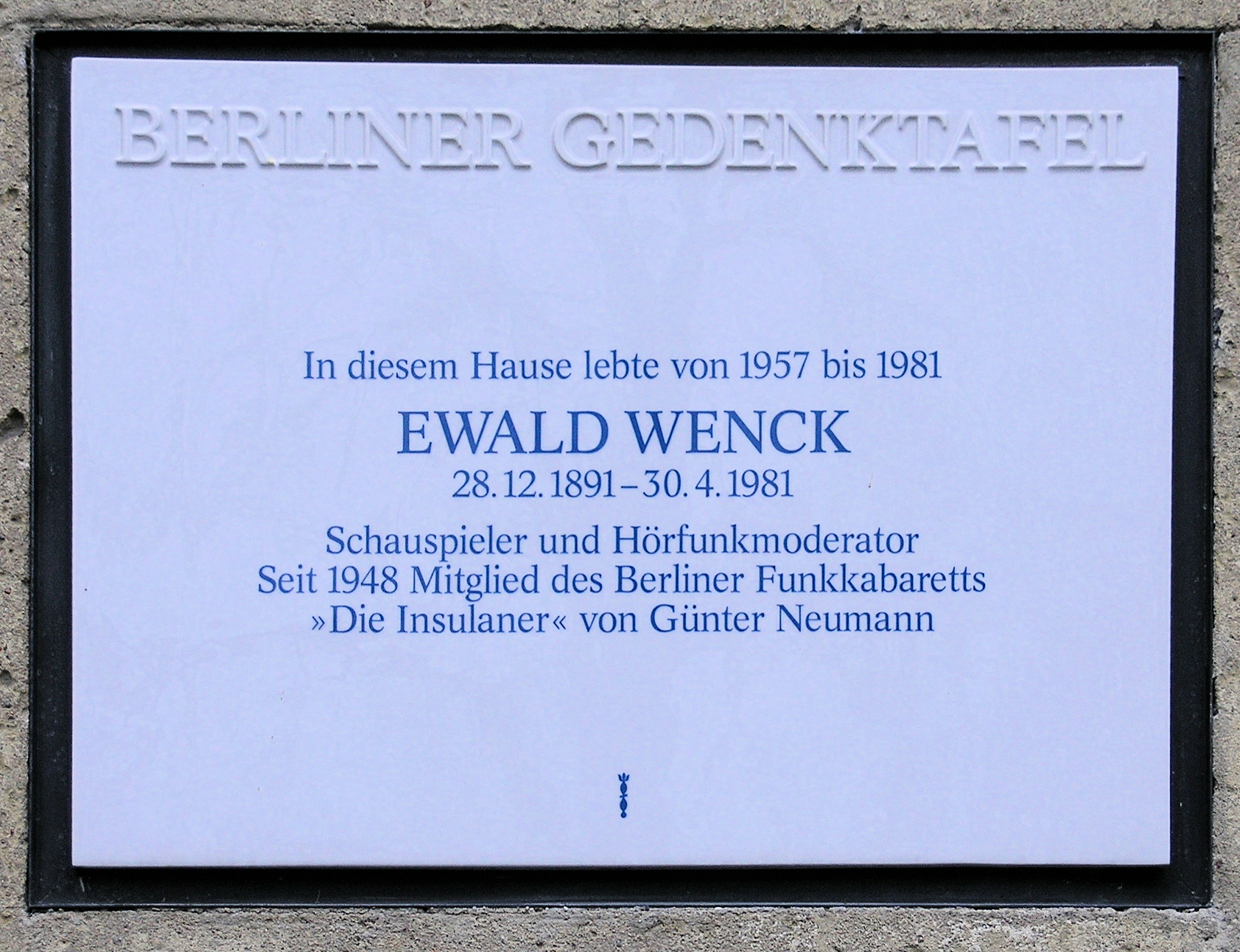 Berlin memorial plaque, Ewald Wenck, Unter den Eichen 104a, Berlin-Lichterfelde, Germany Koordinate:52°26′49″N 13°17′55″E / 52.44694°N 13.29861°E